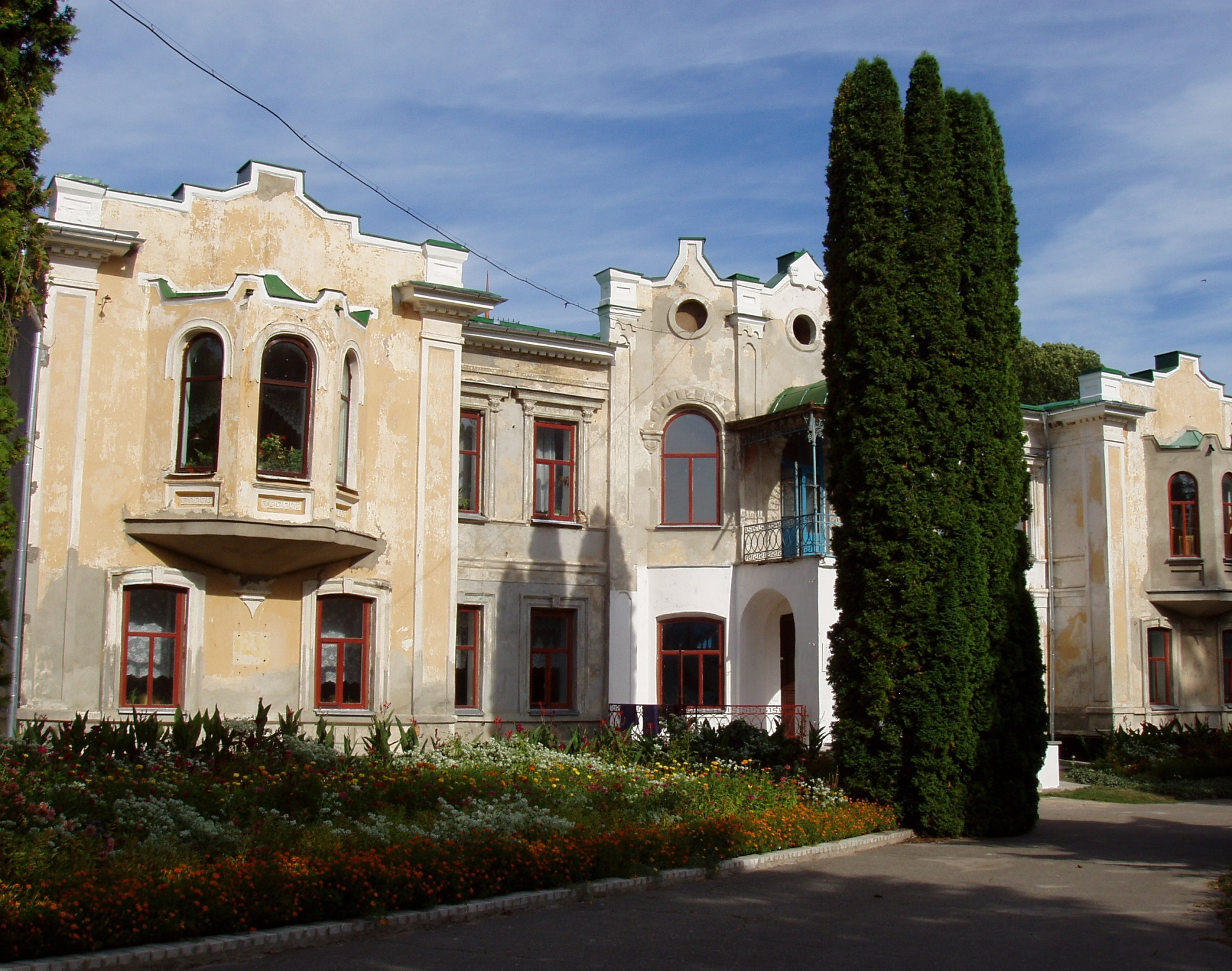 Palace in Berezova Rudka Park (Poltava Oblast, Ukraine)